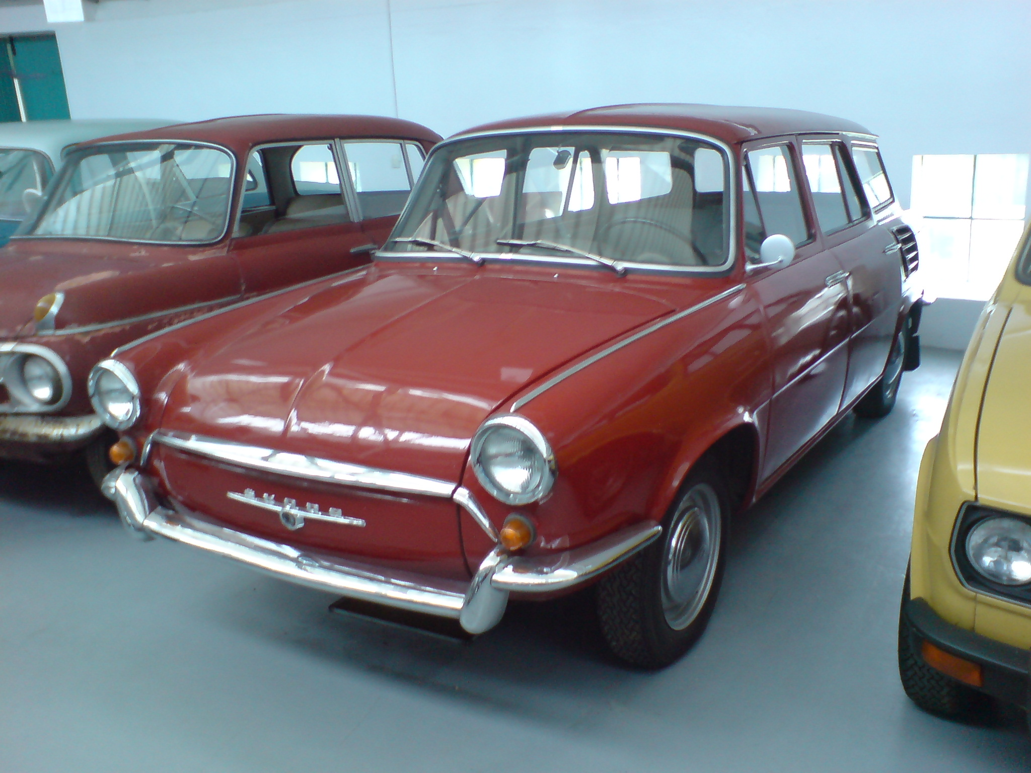 Škoda 1000MB Combi "hajaja" prototype in depository of Skoda museum in Mladá Boleslav